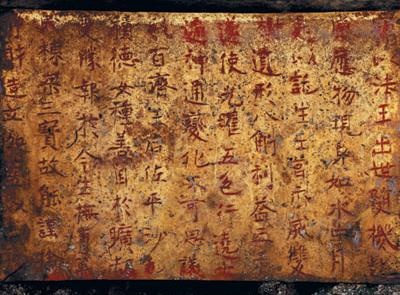 This gold plate is found in the west pagoda of Mireuksa which is located in Iksan, South Korea. January of 2009, in the west pagoda which is the only remaints of the temple, a gold plate was evacuated. The plate reads, in the 40th year of King Mu's reign, wife of the king built the temple.